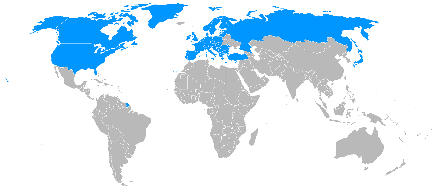 Members of the Stability Pact for South Eastern Europe